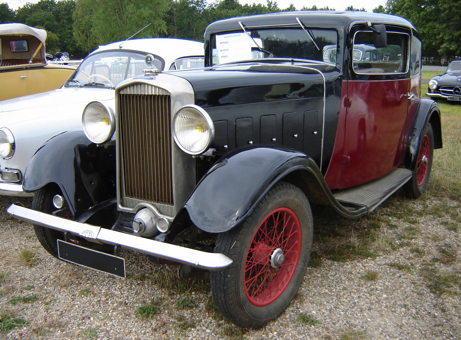 1933 Salmson S4 C faux cabriolet at the Autodrome de Linas-Montlhéry, 2009